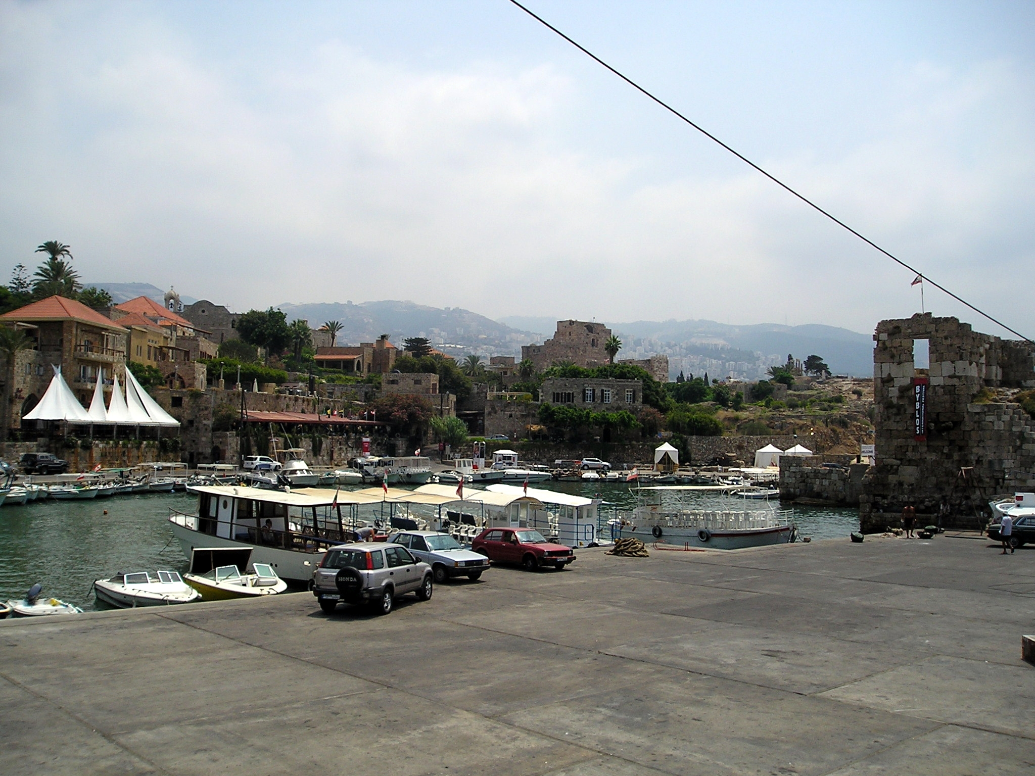 Byblos, Lebanon - a view over the harbour at Bab El Mina restaurant (white covered garden), Byblos Fishing Club (red covered garden), St. John the Baptist church (above the restaurants), Crusader Castle and the harbour tower